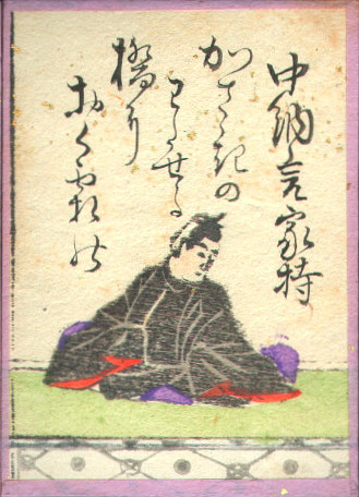 A portrait of Chūnagon Yakamochi; illustration from an uta-garuta playing card for Hyakunin Isshu, created in the Edo period.